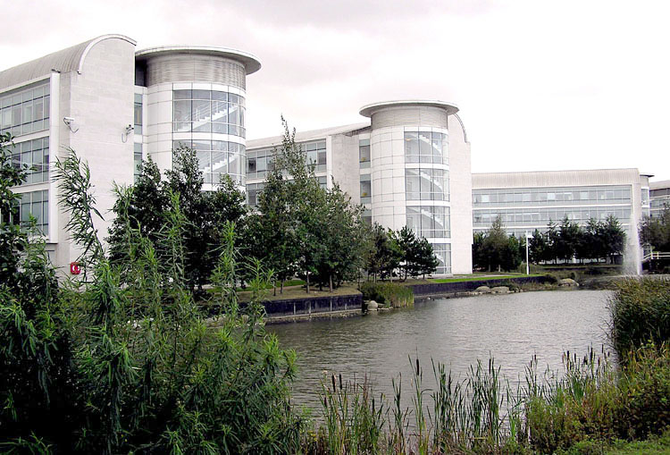 Ministry of Defence building, Filton, near Bristol, England. Taken by Adrian Pingstone in September 2004 and released to the public domain. This picture is dedicated to the (very polite) MOD police officer who wanted to know why I was photographing the building. My explanations about Wikipedia satisfied his curiosity.